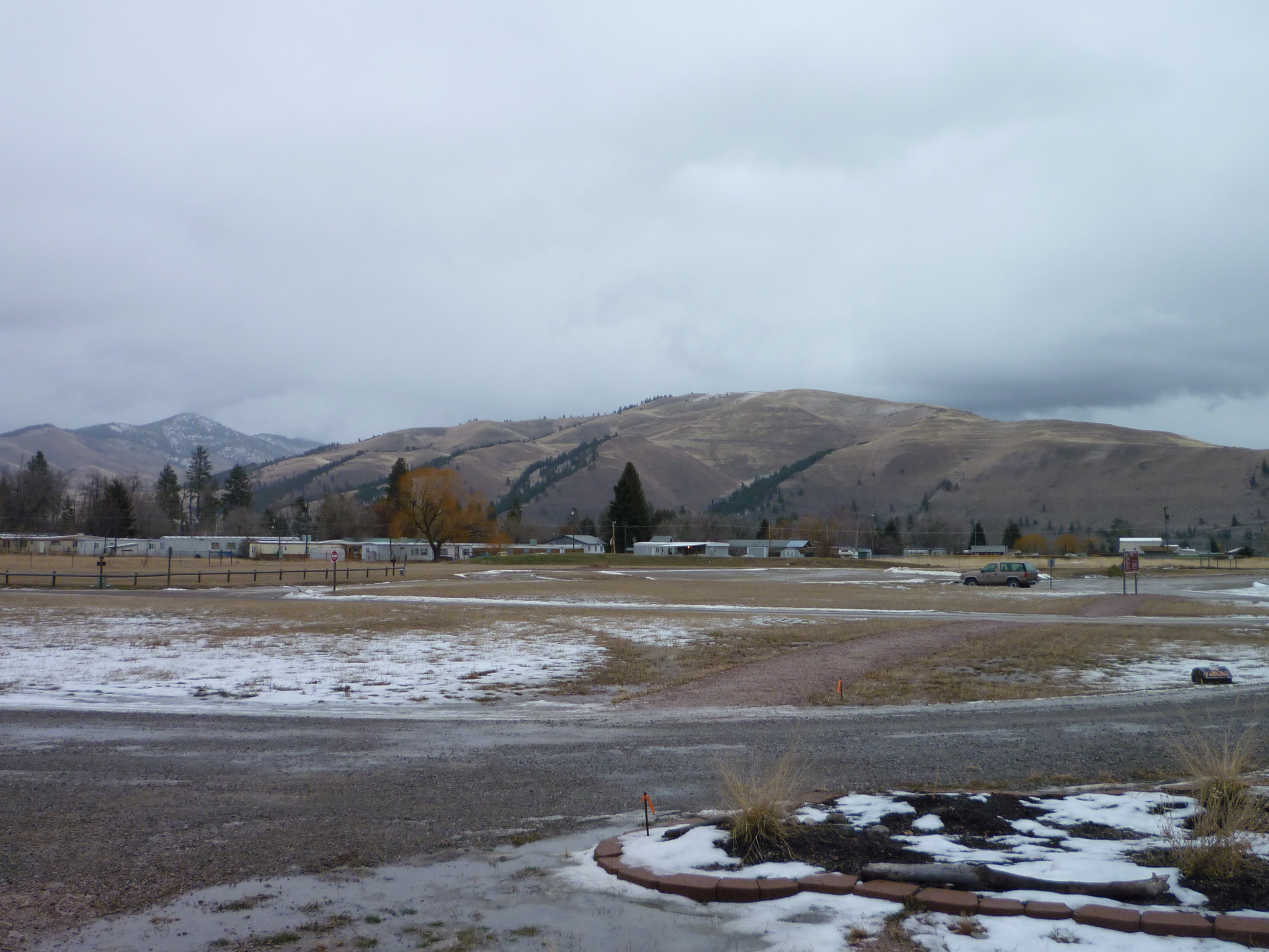 View of mountains from Traveler's Rest State Park Visitors' Center, Lolo, Montana, December 28, 2011.